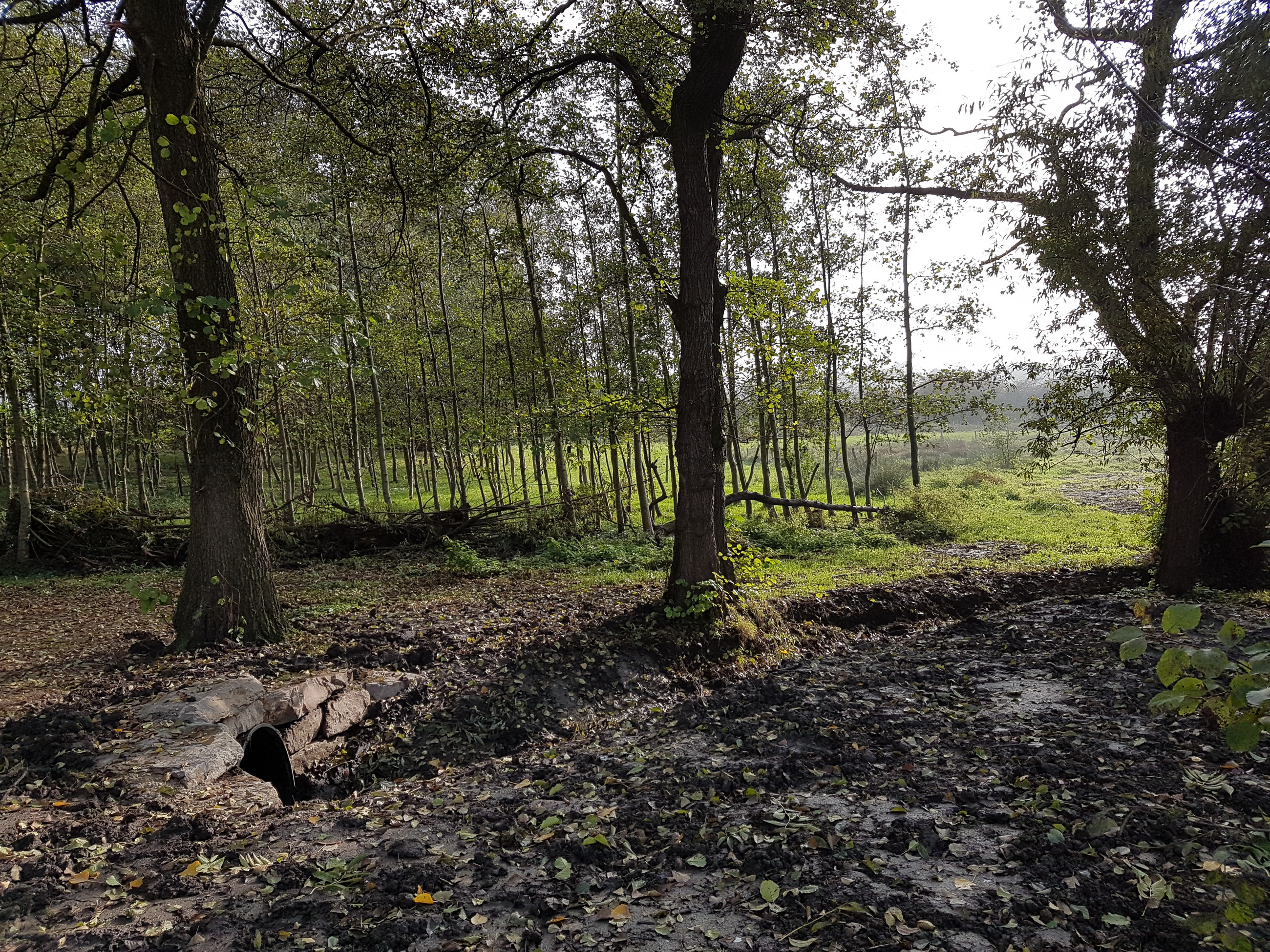 View from Puttersvoetpad of a culvert in the small brook Retersbeek in Voerendaal, Limburg, the Netherlands.